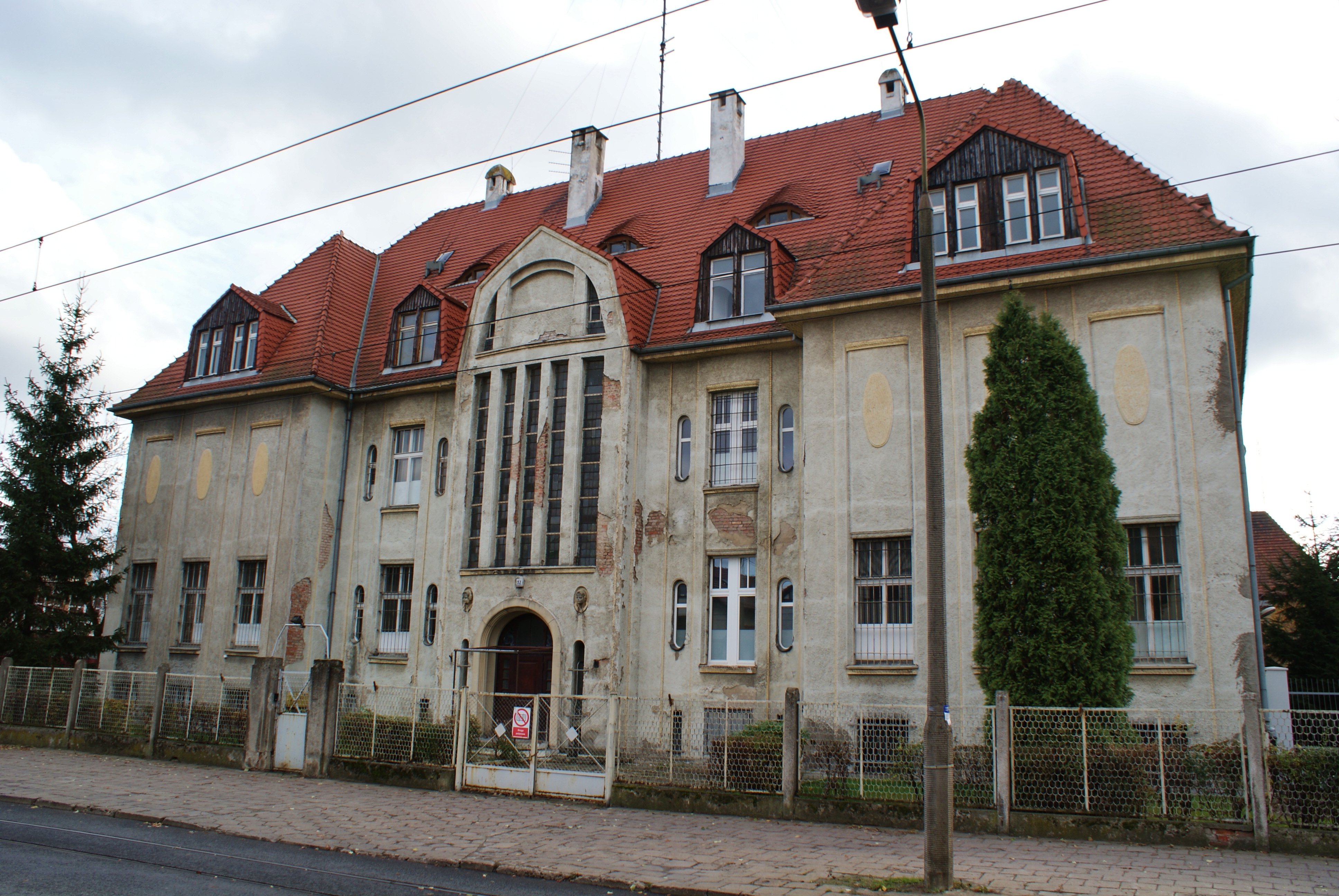 Police Prevention Building, Chodkiewicza Str., Bydgoszcz, Kuyavian-Pomeranian Voivodeship, Poland